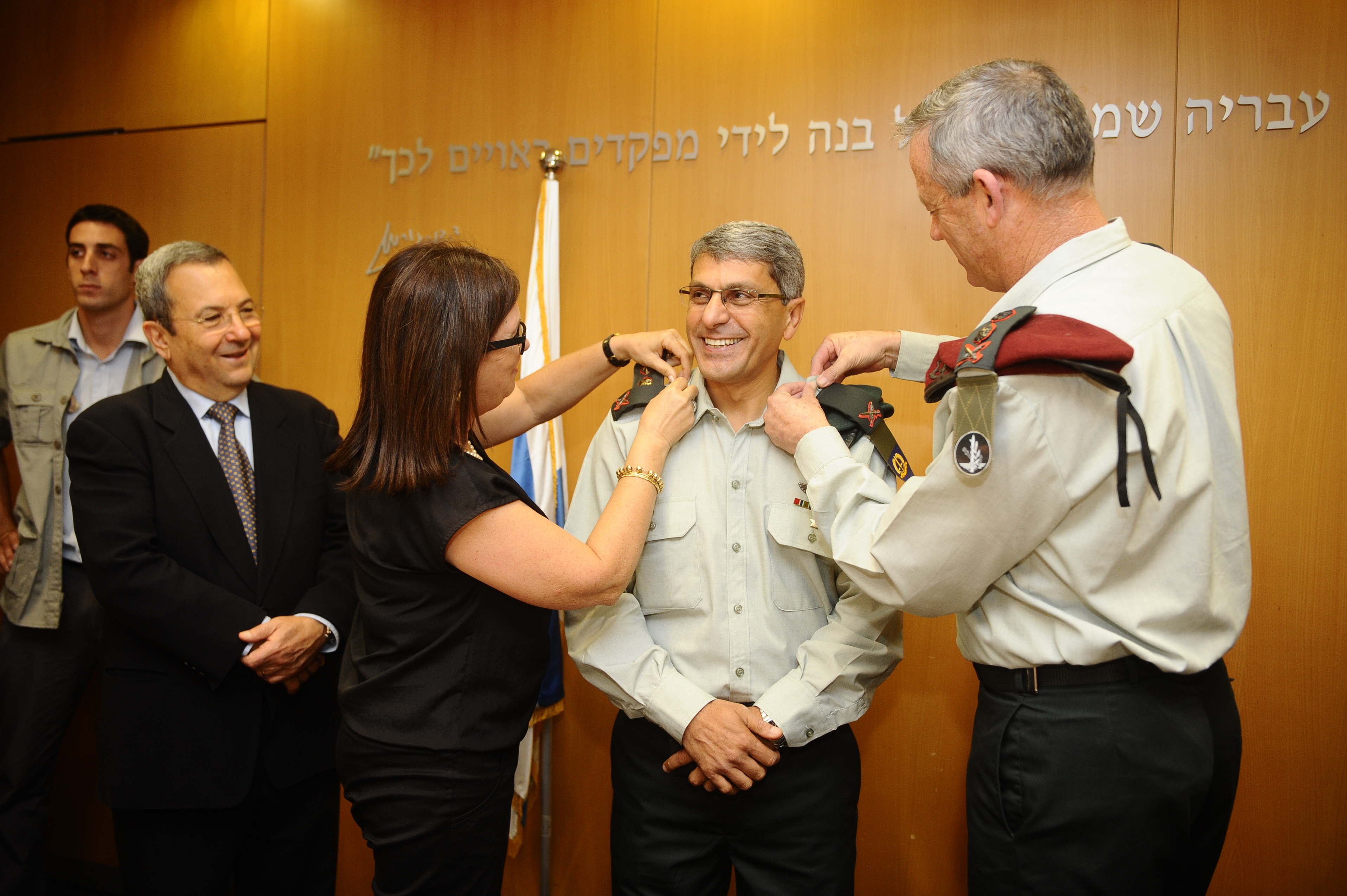 September 15, 2011 Today, a new Military Advocate General was appointed. Col. Danny Efroni was promoted to the rank of Brig. Gen. and was appointed as the new Military Advocate General, replacing Brig. Gen. Avichai Mandelblit, who served in this position for the past seven years.